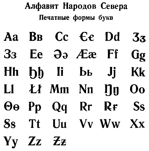 Main letters (in printed form) of the Unified Northern Alphabet, from Я. П. Алькор (Кошкин), И. Д. Давыдов (1932). Материалы I всероссийской конференции по развитию языков и письменнсти народов Севера. — М.-Л.: Учпедгиз.